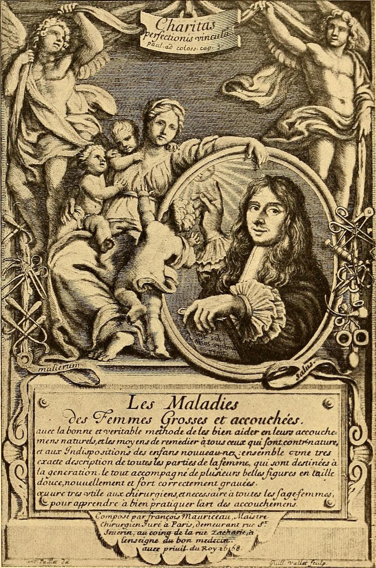 Title: Fragmenter af fødselshjaelpens historie Year: 1906 (1900s) Authors: Ingerselv, Emmerik, 1844-1916 Subjects: Obstetrics Medicine Publisher: Kjobenhavn og Kristiania, Gyldendalske boghandel Text Appearing Before Image: i. Mauriceau er for rodfæstet i Læren om kvindeligeTestes og Kvinde-Sæd til at akceptere disse „Modernes besynder-lige Teori om Æg,der, efter at værebefrugtede, nogleDage efter Koi-tus glide gennemVasa ejaculatoria(Tubæ) ind i Ute-rus. HanslaardetHele hen i Spøgog mener, at naarman gik Dhrr.paa Klingen, vildede som Pythago-rasiHanensSkik-kelse i LuciansDialoger svare, atdet blot kom afderes Lyst til Pa-radokser. — Det,at der ingen di-rekte Forbindelseer mellem Vasaejaculator. og Te-stes, volder hamganske vist Van-skeligheder vedat forstaa SemensPassage fra desidste til Uterus; han supponerer, at det sker gennem „nogle fine, neppe synlige Kar,lig Kyluskarrene i Mesenteriet, der ses i Ligamentet mellem Testesog Tubæ (vel altsaa det Rosenmiillerske Organ?), eller maaske sna-rere gennem Lig. ovarii; at dette ikke er hult, betyder ikke noget,da Semen jo er spirituel og kun behøver en porøs Substans til sinPassage. Kuriøst nok spiller Mauriceau nu, trods dette, egentlig den Text Appearing After Image: Fig. 59. Titelbillede i 1668 Udg. af „Tratte. 136 korrigerende Rolle i den, saavidt ses, første Diskussion om Tubar-svangerskab i obstetricisk Litteratur. Anledningen hertil var følgende:Den 5te Januar 1669 saa han i Rue de la Tannerie hos KirurgenBenoit Vassal et Præparat, som var taget fra en 32aarig Kvinde,der lykkeligt havde født 11 Børn, men pludselig under Synkope vardød i 12te Graviditets 3die Maaned. Det vakte stor Opsigt, blev setog befølt af mindst 1000 Personer og demonstreret af Kirurgen somBevis for Konception og Svangerskab i Tuba Falloppii, der var